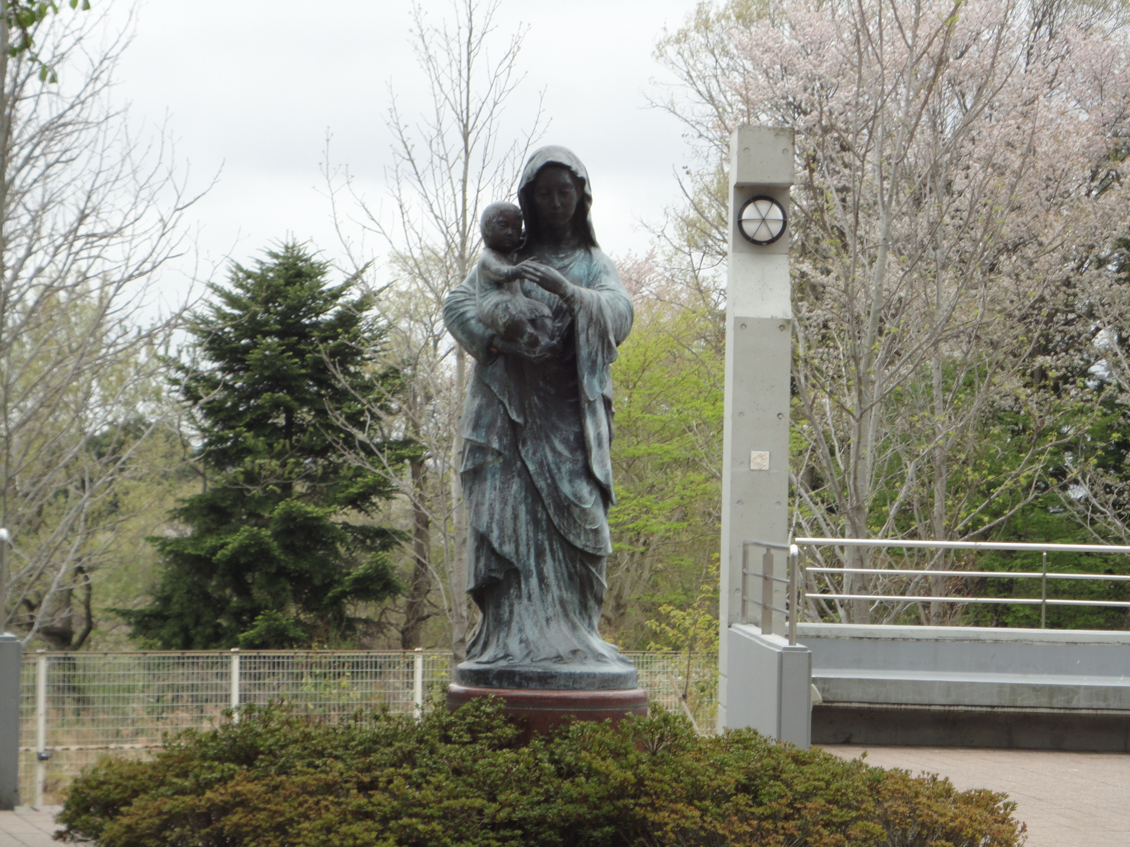 Madonna and Child on the campus of Sendai Shirayuri Women's College